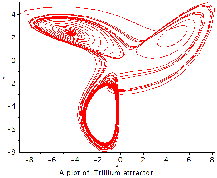 Trillium attractor